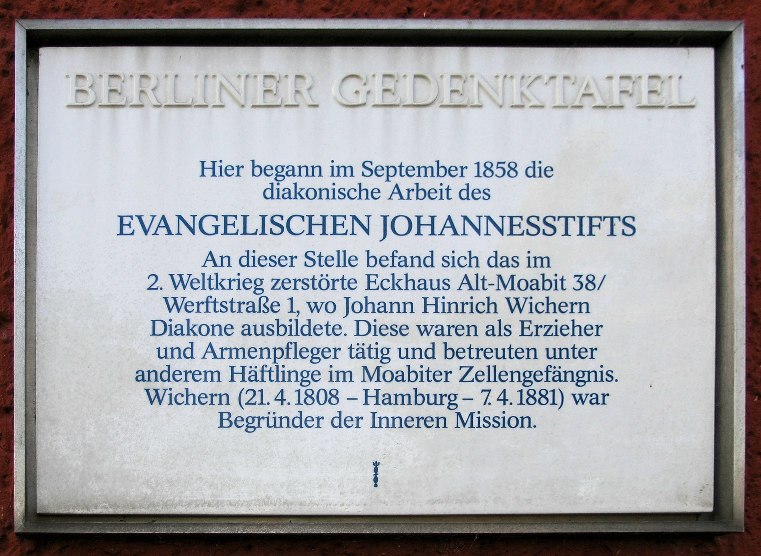 Berlin memorial plaque, Johann Hinrich Wichern, Alt-Moabit 127, Berlin-Moabit, Germany